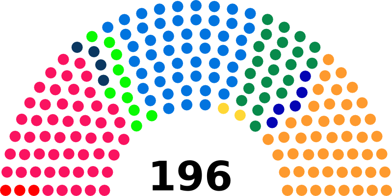 Seats diagramme of Swiss National Council (1959)